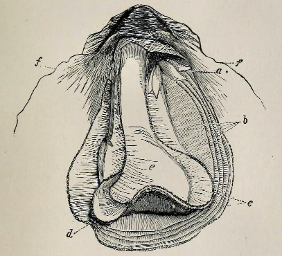 The European flat oyster (Ostrea edulis) Linneaus, 1758; Ostreidae